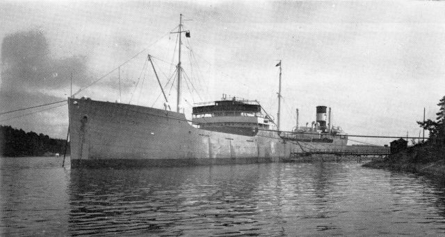 Swedish oiler M/T Castor on a pre-WWII picture